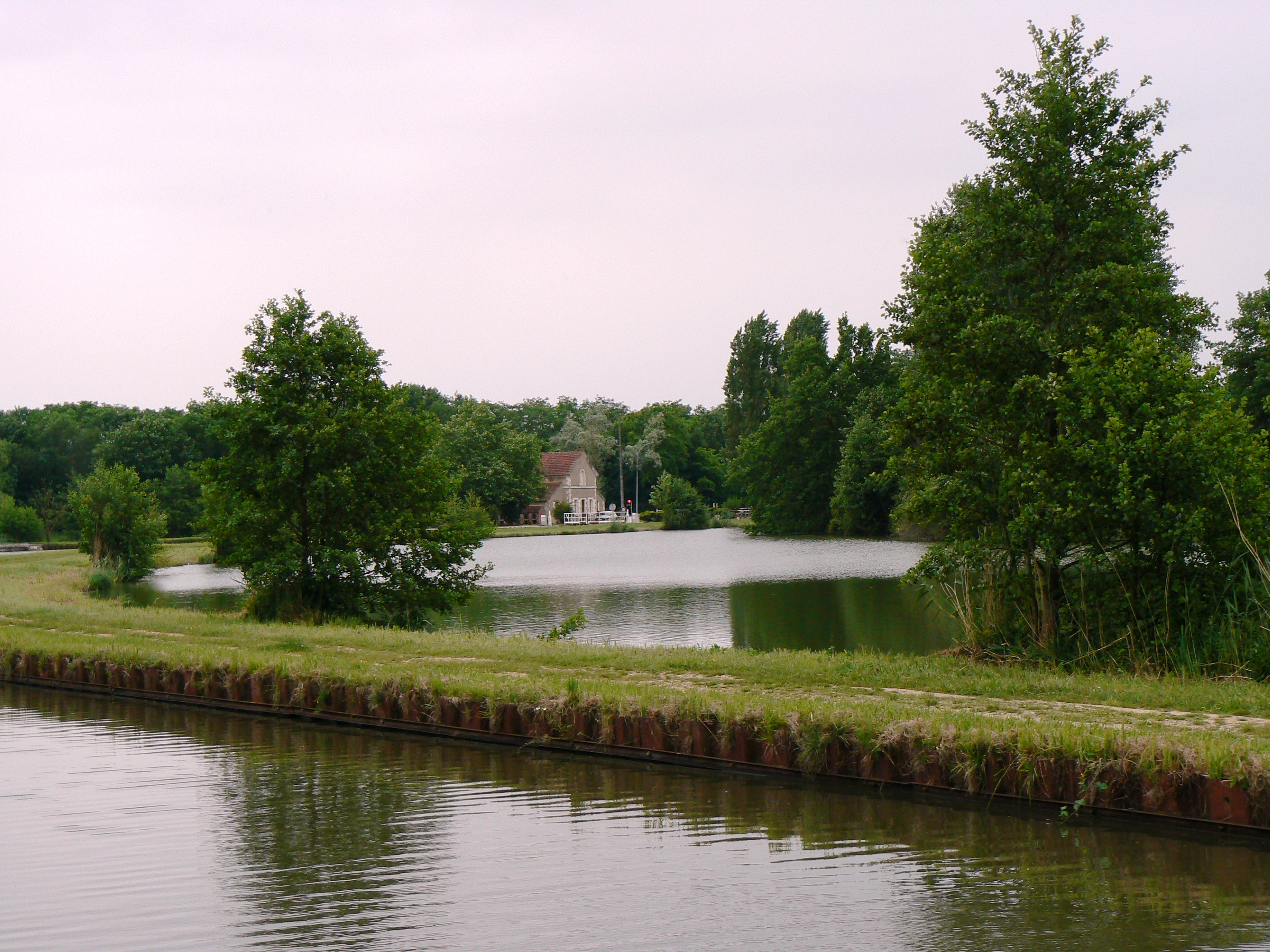 Canal de Briare, view from lock n° 11 ("écluse du Petit Chaloy"), looking south-west. The house shown in center is the lock house for lock n°9, "écluse des Fées". On the very edge of the photo on the left is part of lock n° 10, "écluse Notre-Dame". The canal curves to the right.